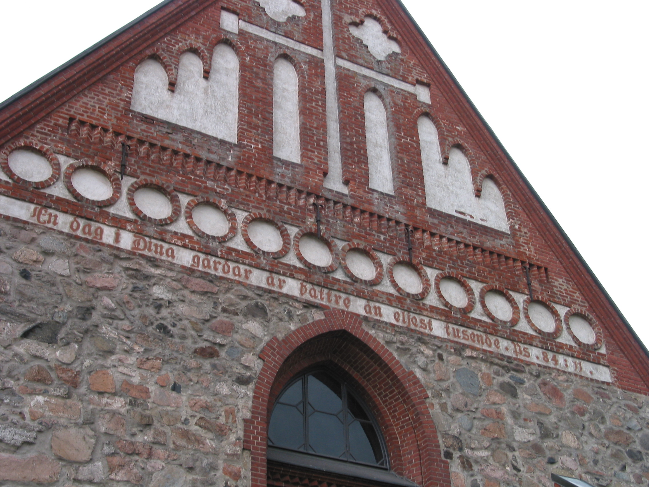 St. Lawrence Church in Vantaa, Gable with text from Psalm 84:10 " For a day in thy courts is better than a thousand elsewhere."